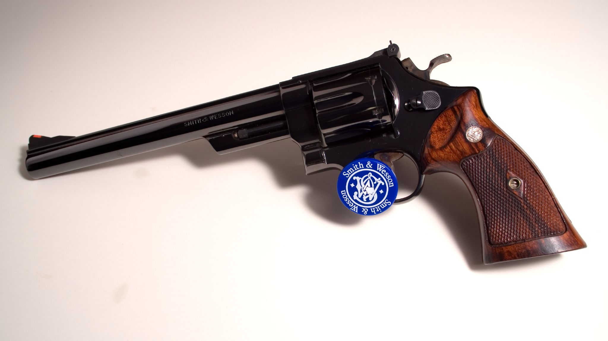 1959 Model 29 .44 Magnum with 8 3/8 inch barrel.